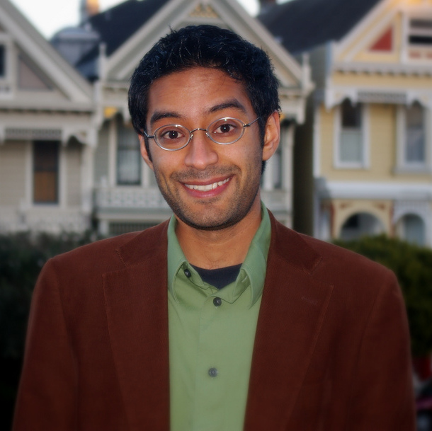 American journalist and author Farhad Manjoo (photo taken by his wife).